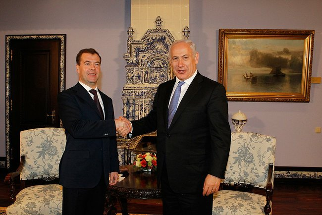 Dmitry Medvedev and Binyamin Netanyahu meet in Gorki